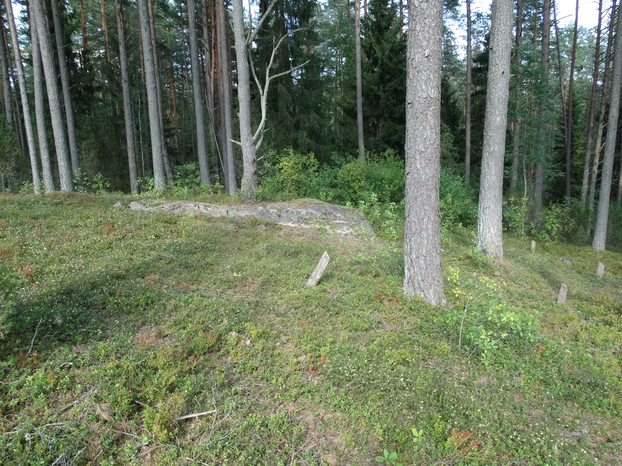 Lakaja Stone, Molėtai district, Lithuania